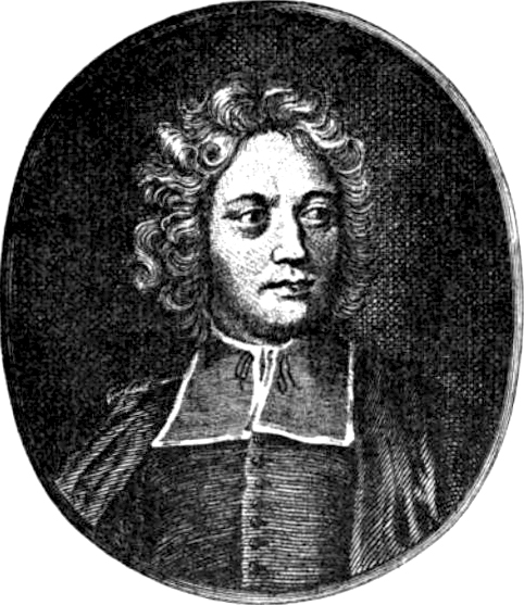 Charles-Irénée_Castel_de_Saint-Pierre